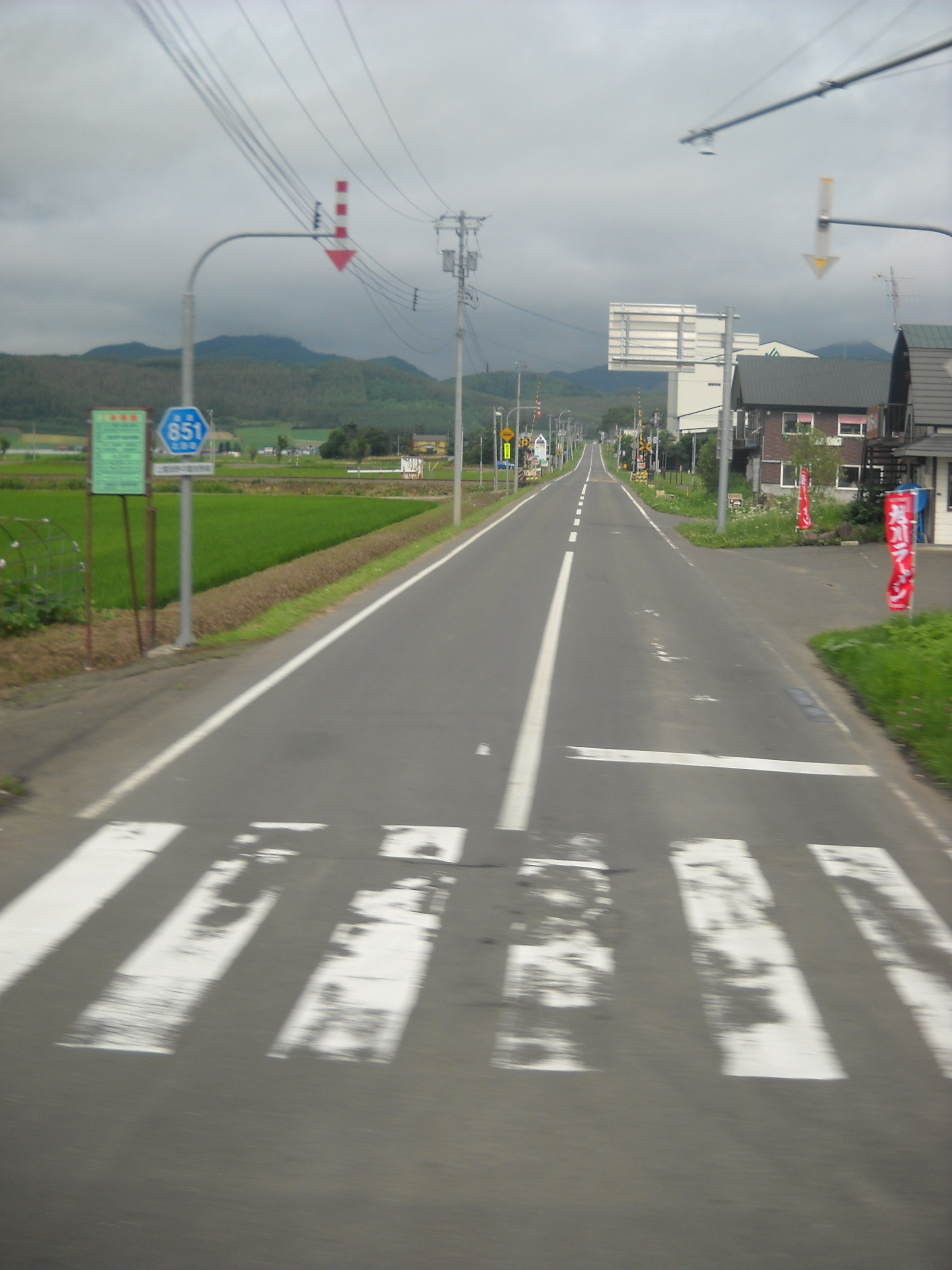 Hokkaido prefectural road route851, Furano, Hokkaido, Japan